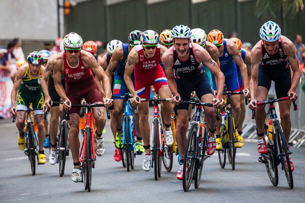 Triathlon at the 2016 Summer Olympics – Men's